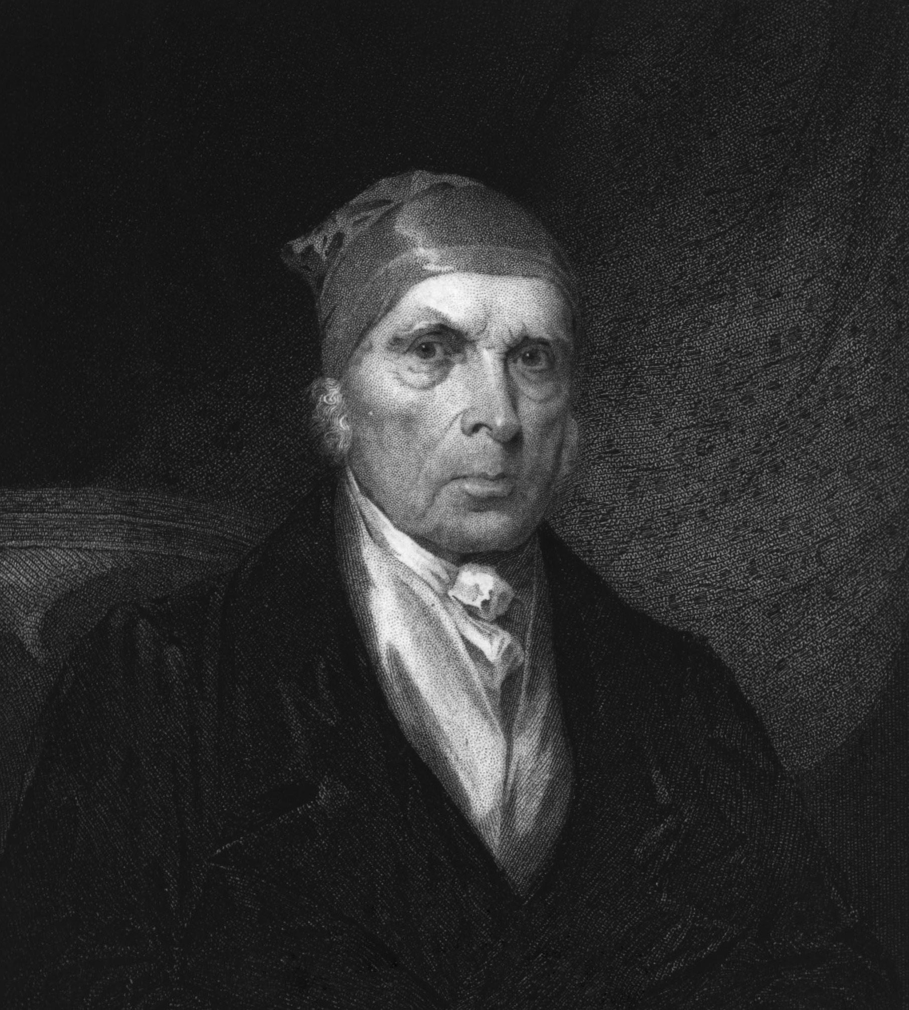 Portrait of James Madison, aged 82.